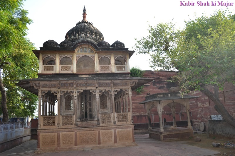 Kabir shah ki Majar